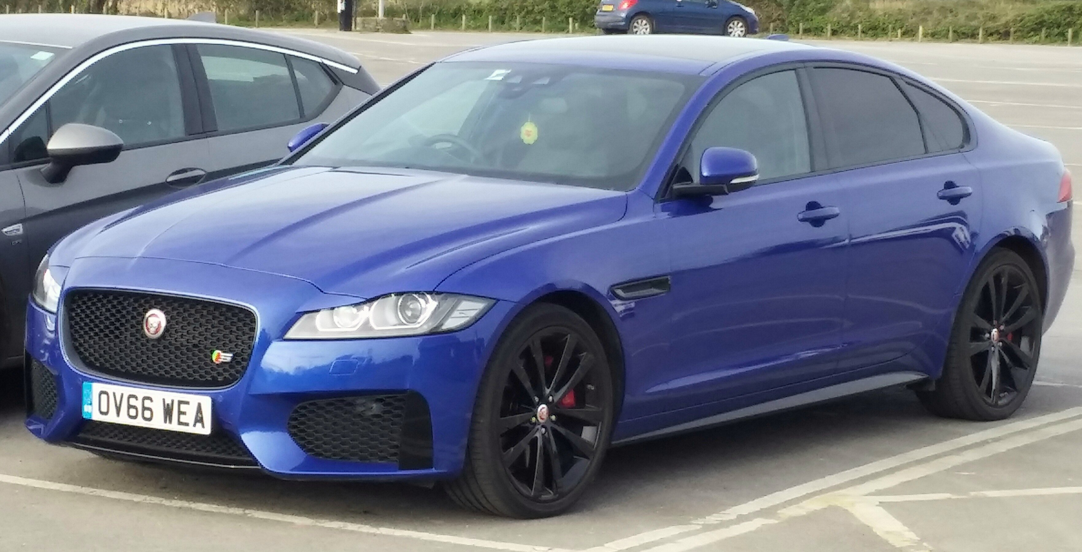 Nice but I won't be selling mine